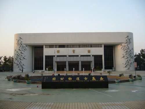 Chiayi City Gang Ping Stadium